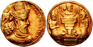 Coin of Shapur III, an Sasanian king.